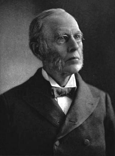 Gerry Whiting Hazelton.